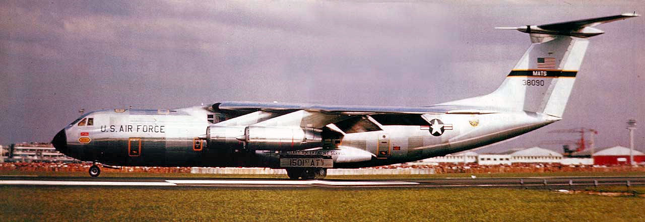 USAF C-141A 63-8090 in Military Air Transport Comand livelry, 1965